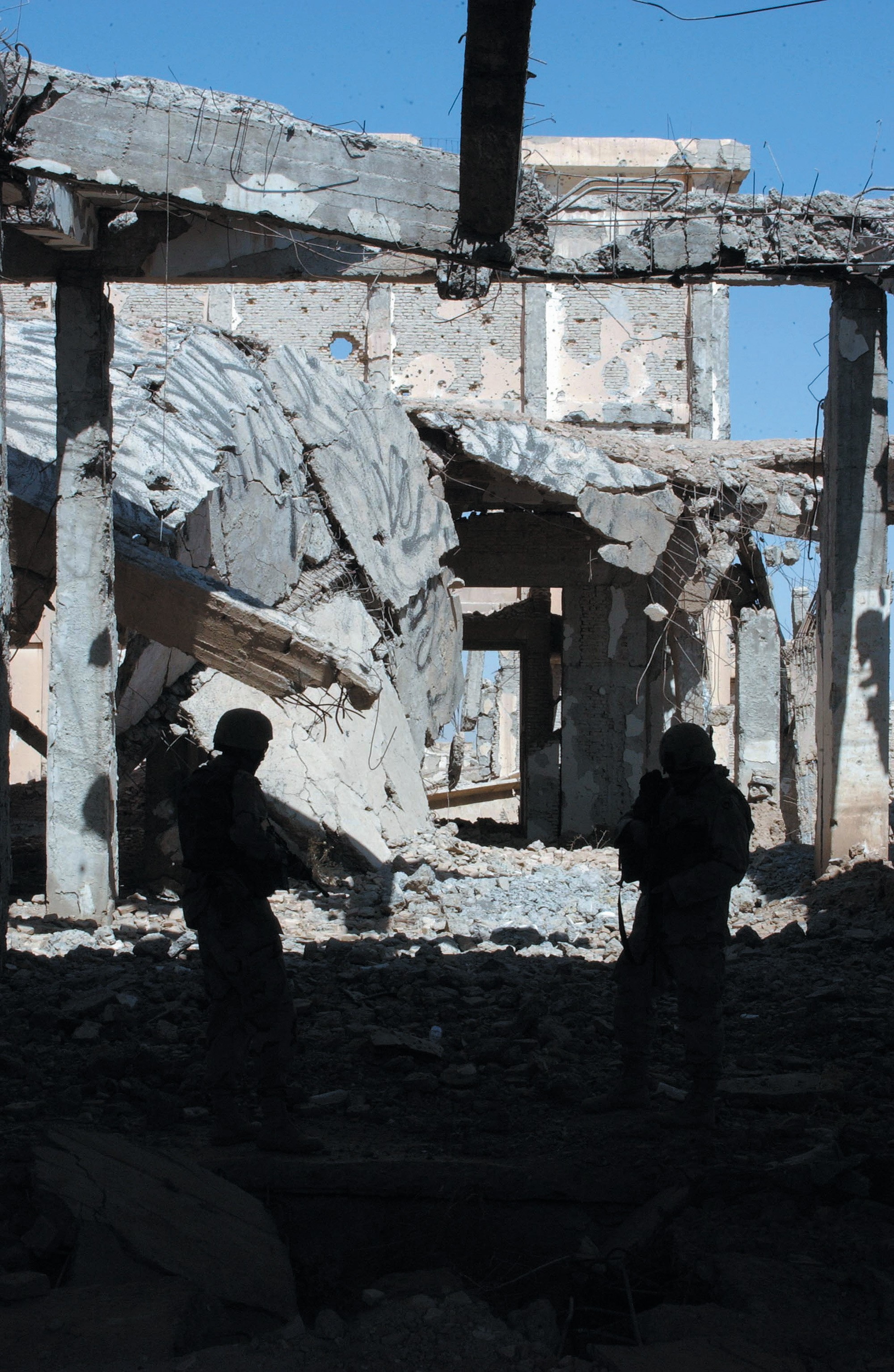 Army Sgt. Sean Oeder (left) a dog handler with the 67th Mine Dog Detachment, and Army Sgt. 1st Class Mike Ford, an operations noncommissioned officer with A Company, 391st Engineer Battalion, examine a crater in the ruins of a bombed-out building outside the Tarnak Farms terrorist training site. Photo by Army Pfc. Vincent Fusco/20th Public Affairs Detachment